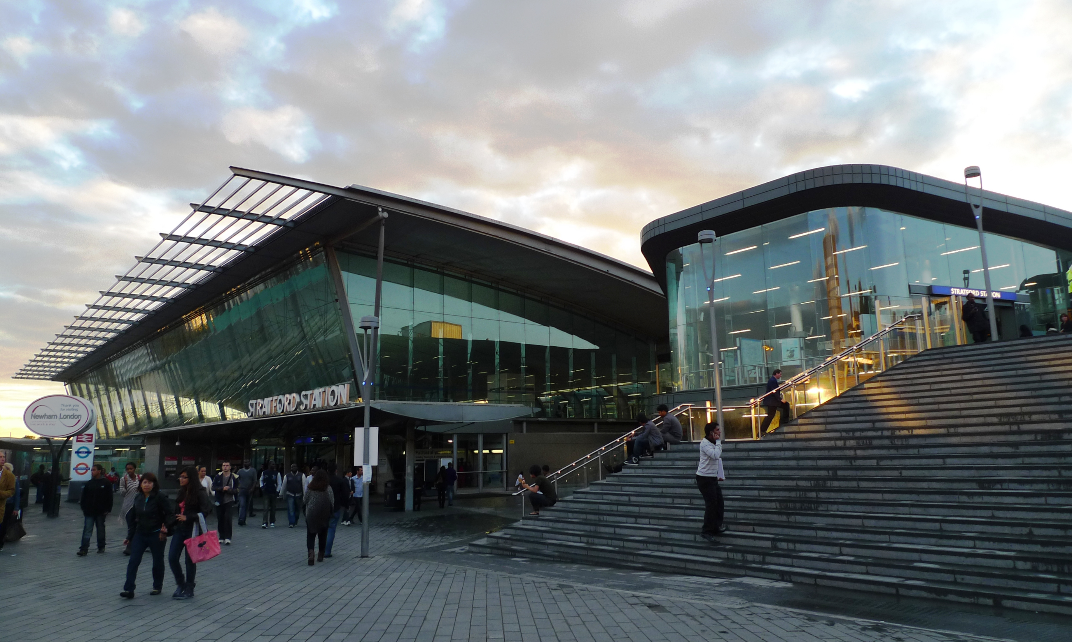 One of the great buildings in this rebuilt area, now with steps leading up to the Westfield shopping centre site. (View of tube station entrance in Westfield.) Station Code: SRA. Line(s) and Previous/Next Stations: Mile End Leyton Liverpool Street Barking Pudding Mill Lane [Terminus] Stratford International Stratford High Street Liverpool Street Shenfield Liverpool Street Maryland [Terminus] Tottenham Hale West Ham [Terminus] Hackney Wick [Terminus] Links: Randomness Guide to London Wikipedia